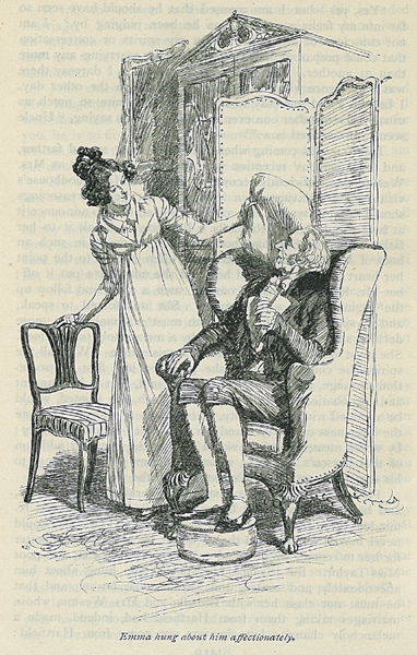 Illustration for Macmillan's edition of Emma (Jane Austen's novel): "Emma hung about him affectionately, and smiled, and said it must be so".